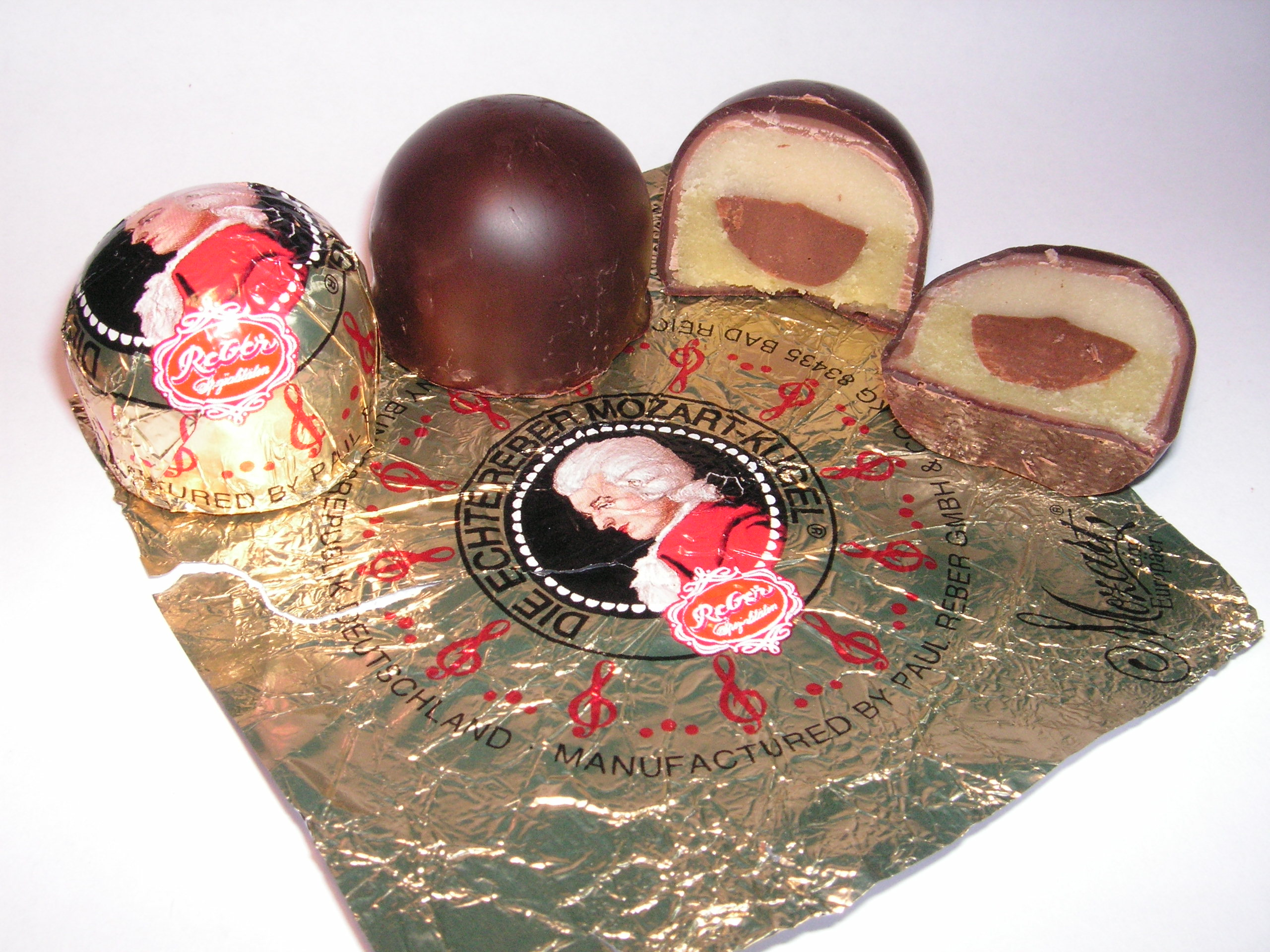 Description: Quickly self-made picture of "Echte Reber Mozartkugeln" showing from left to right foil-wrapped Mozartkugel, bare intact Mozartkugel and cross-section of a Mozartkugel. On the sliced one you can see different layers of Marzipan (almond paste) around a core of Nougat and all coated with Nougat and finally coated with dark chocolate. The wrapping foil shows a picture of Wolfgang Amadeus Mozart. Date: January 15th 2006